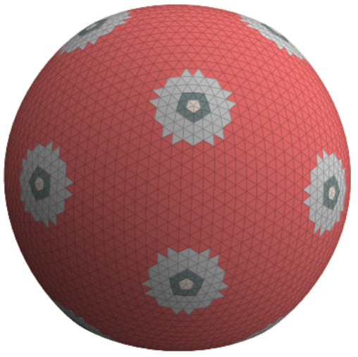 Conway polyhedron notation